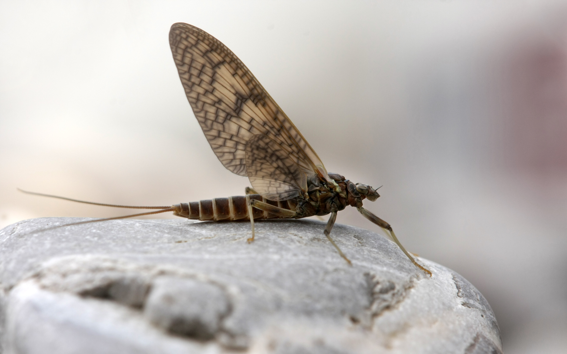 A female subimago of March Brown (Rhithrogena germanica) of family Heptageniidae. Mayflies are insects which belong to the Order Ephemeroptera (from the Greek ephemeros = "short-lived", pteron = "wing", referring to the short life span of adults). They have been placed into an ancient group of insects termed the Paleoptera, which also contains the dragonflies and damselflies. They are aquatic insects whose immature stage (called naiad or, colloquially, nymph) usually lasts one year in fresh water.